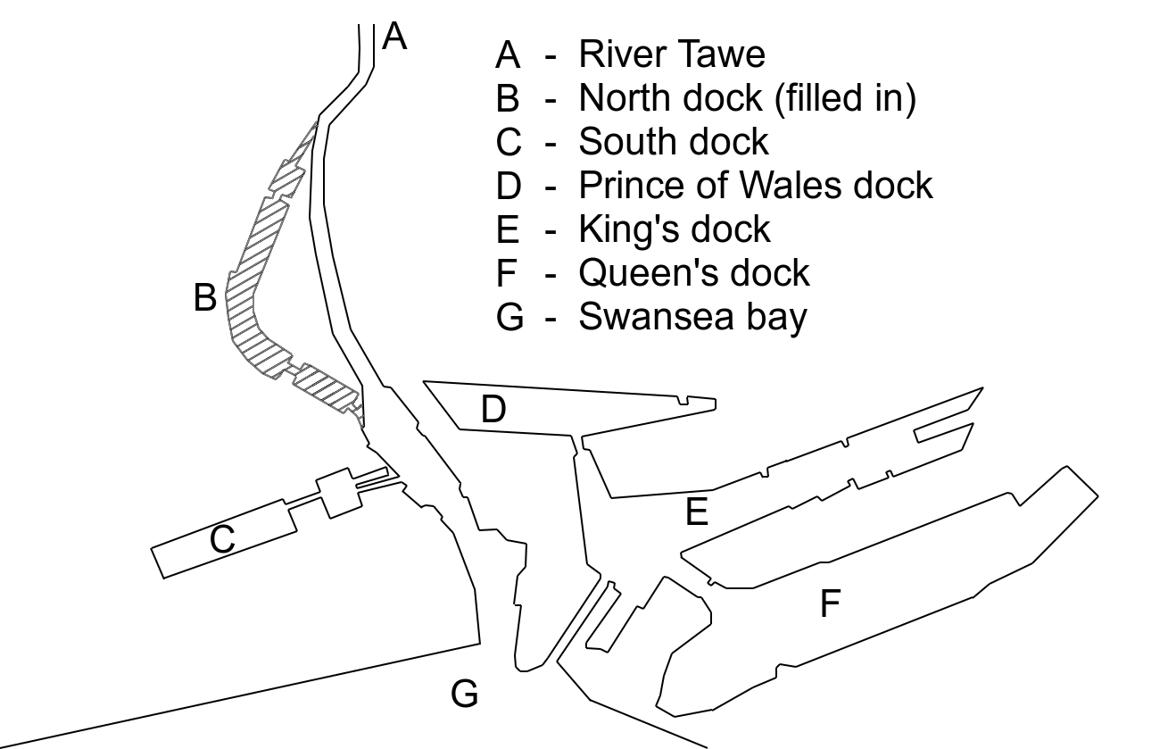 Schematic of the past and current docks of Swansea, showing the defunct North dock, the South dock, the Prince of Wales dock, King's dock, and Queen's dock, as well as the new course of the river Tawe.